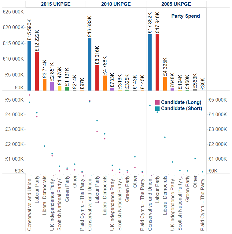 UK Parliamentary General Election party and candidate expenditure 2005-15. Derived from The figures used in this table and chart are based on all candidate spending returns provided to the Commission by Returning Officers by 31 January 2016, being approximately 86.5% of all candidates who stood in the election. Parties included had candidates elected to the UK Parliament (2010 or 2015). Expenditure by joint Labour and Co-operative Party candidates has been included under 'Labour Party'. There was a Conservative & UUP alliance in 2010 (joint candidate spending shown). Ulster Unionist Party expenditure does not include Conservative Party (NI).